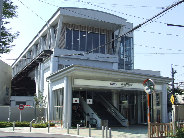 North building of Takahatafudo Station, KTR KEIO LINE, Keio Electric Railwey, Japan